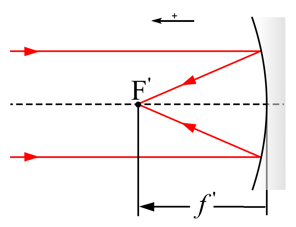 The focus F and the focal length f (positive) of a concave mirror.